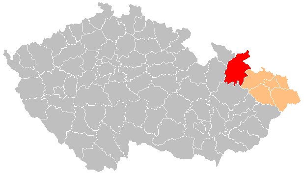 District of Bruntál